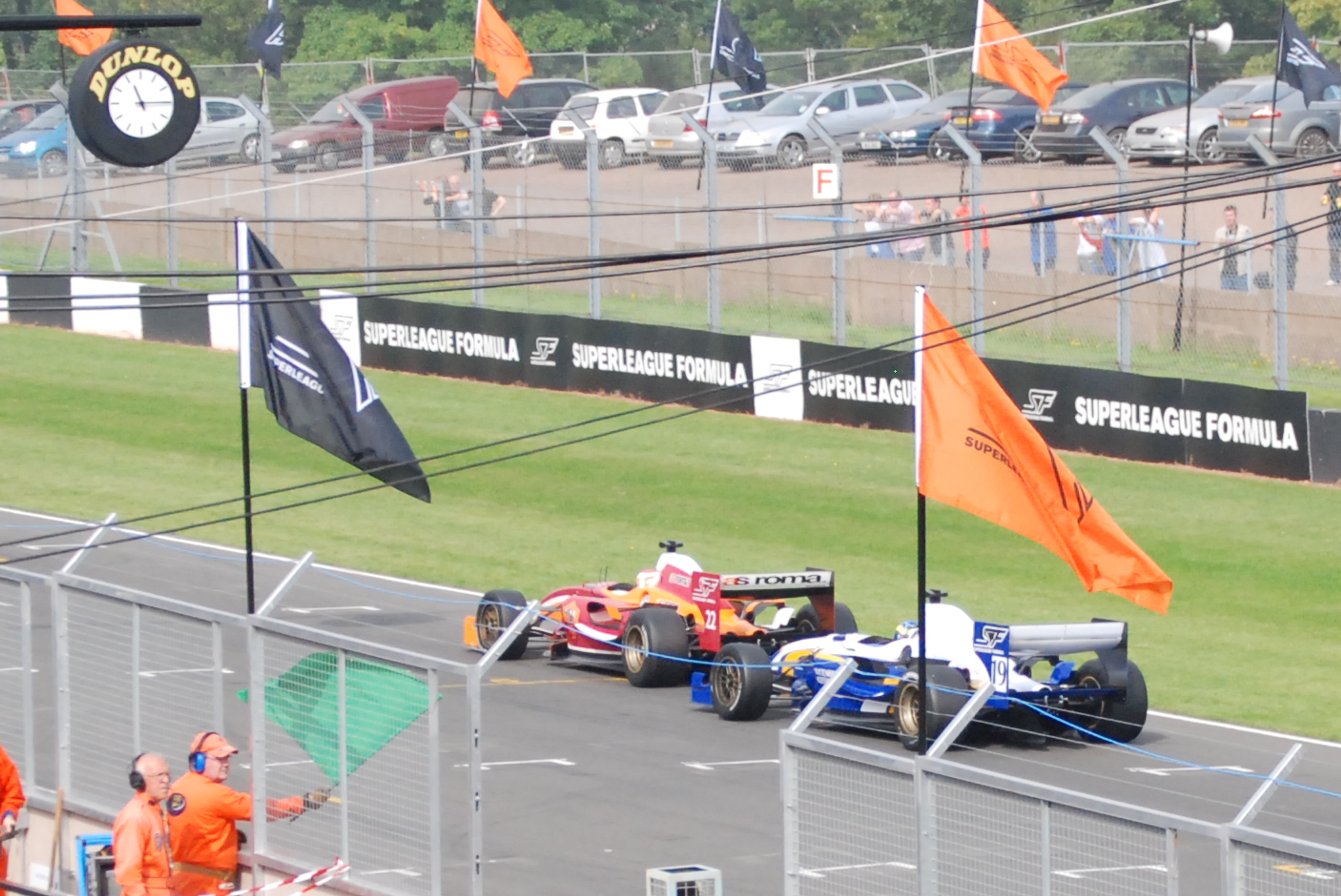 Superleague Formula cars at Donington Park - Tottenham Hotspur slipstreams AS Roma down the start/finish straight.